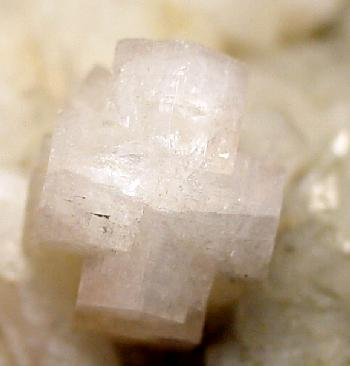 Harmotome Locality: St Andreasberg, St Andreasberg District, Harz Mts, Lower Saxony, Germany (Locality at ) Size: miniature, 5.5 x 5 x 2 cm HARMOTOME (twinned) A superb old specimen showing classic twinning of the harmotome crystals as originally described for the species by the old German mineralogists, and shown in very old mineral prints. These specimens are admittedly somewhat exotic in terms of appreciation to non-German specialists, but are none the less desirable for the species because of the unusually well-pronounced twinning and, as well, remain a very rare old classic.....as you'd expect from the German suite of this particular collection, which was clearly its pride and joy